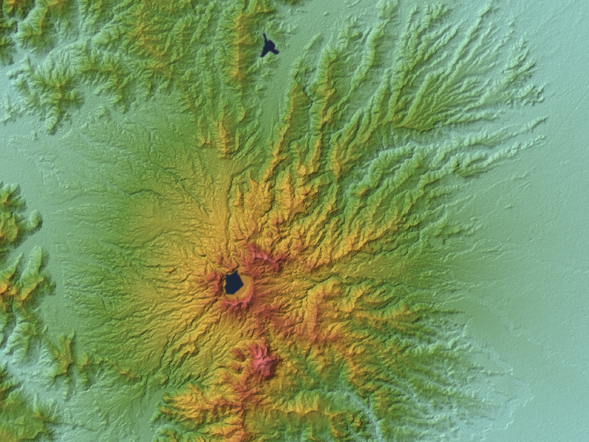 Mount Pinatubo in Central Luzon, Philippines.